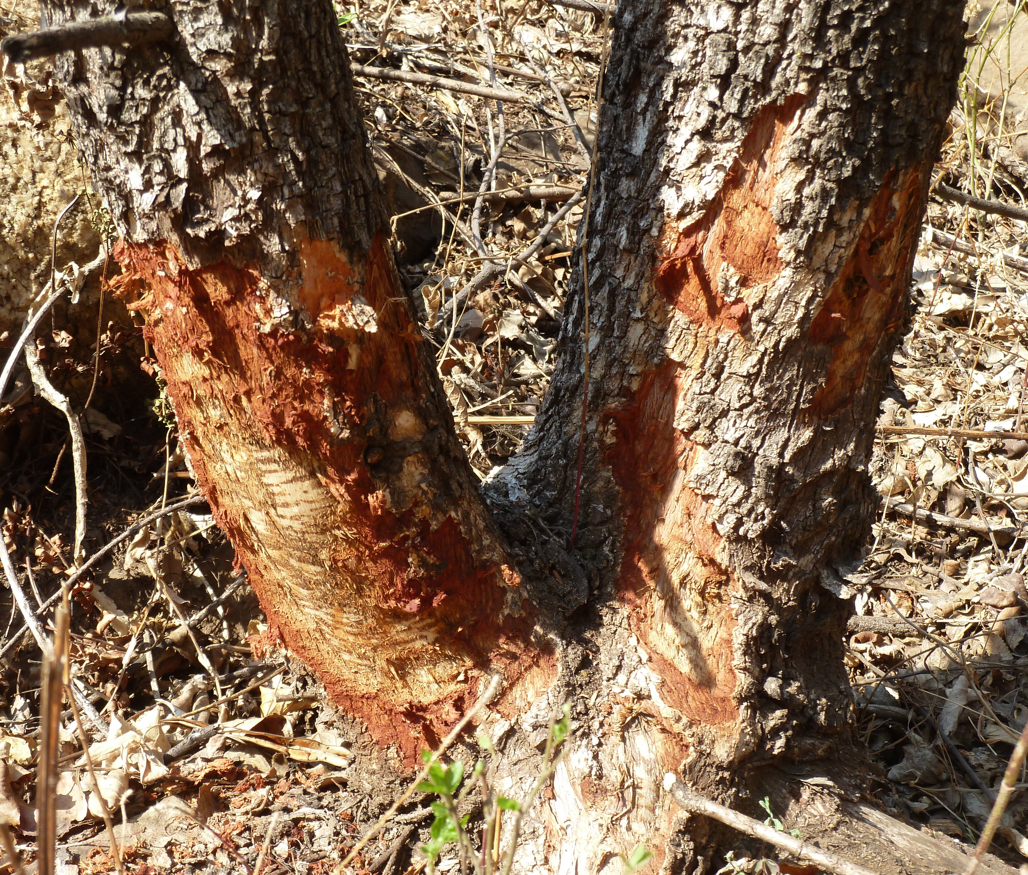 Debarking of a Buffalo thorn by a Cape porcupine in Moreleta Kloof Nature Reserve, Pretoria. They often gnaw on the bark of broad-leaved trees, but avoid Acacia and Sicklebush. They possibly derive sugars and calcium from the bark, and also like to gnaw on dry bones, which are carried to their lairs. It has also been suggested that they gnaw tree bark in order to wear down their growing incisors, or to mark their territory.